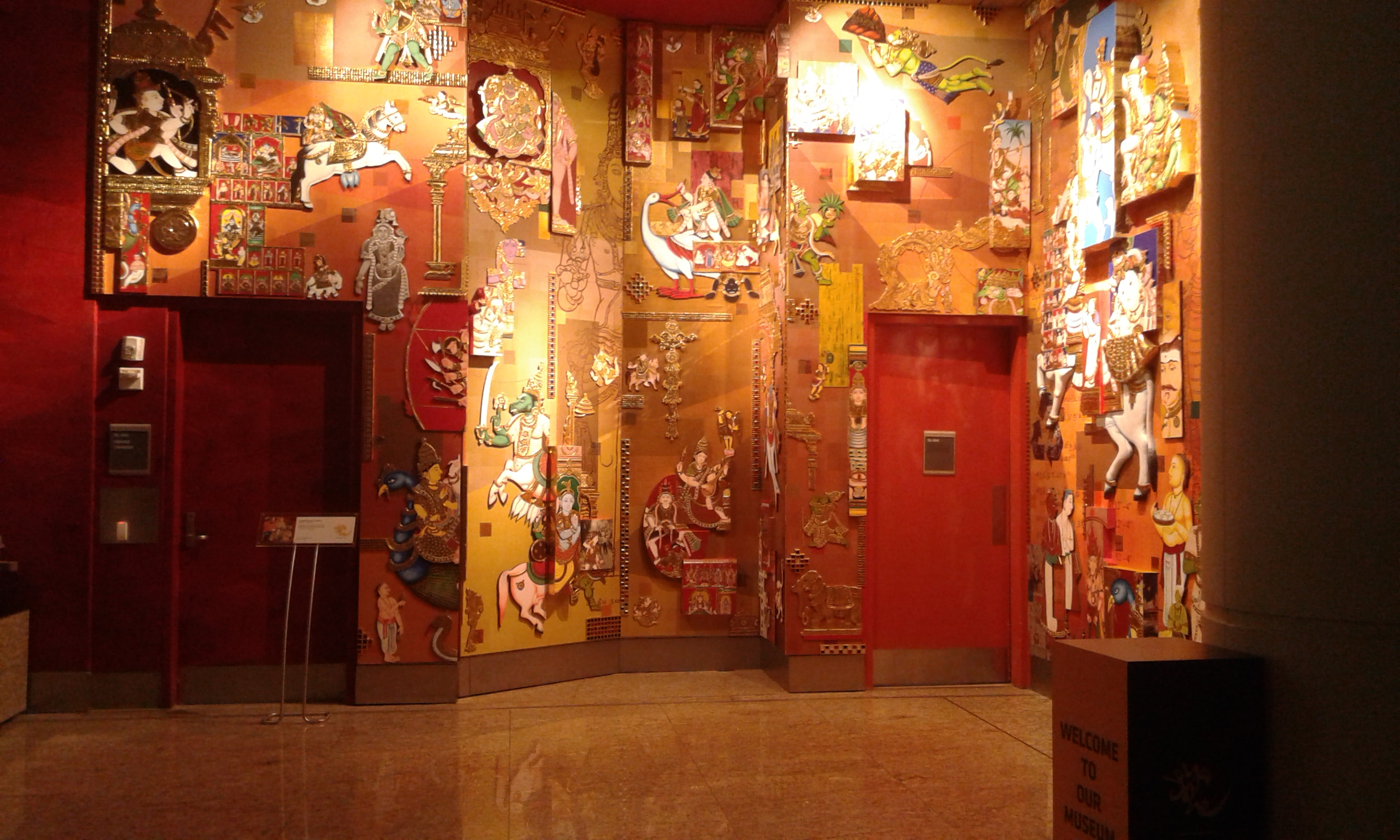 Art in mumbai Airport